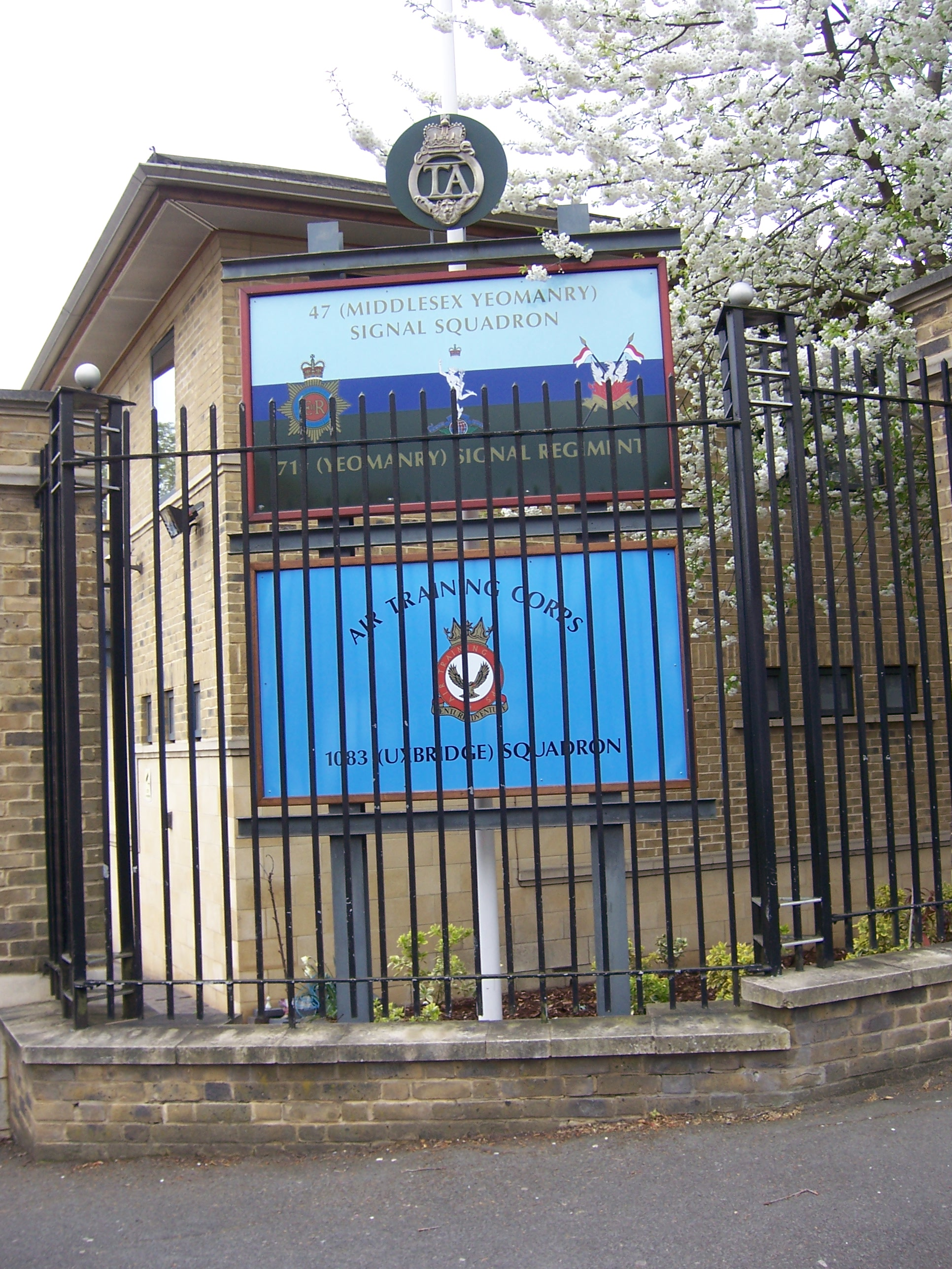 Sign for the headquarters of 1083 (Uxbridge) Squadron Air Training Corps within RAF Uxbridge.